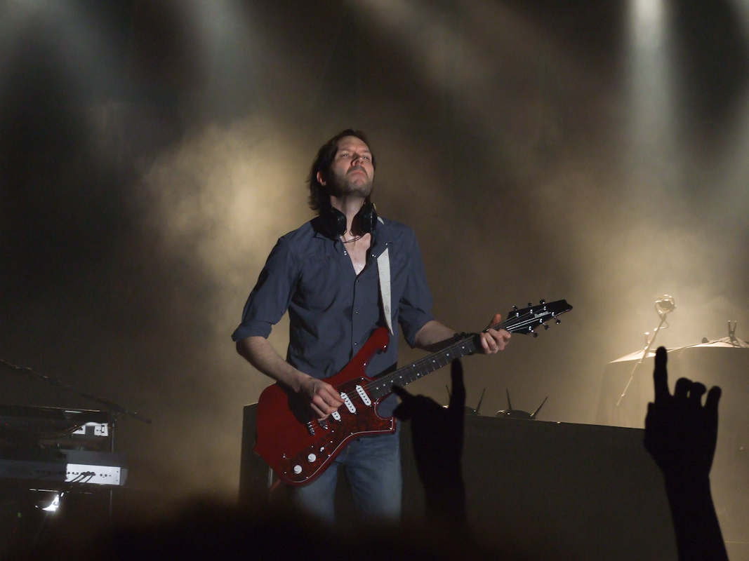 Paul Gilbert - the guitarist of the hard rock band Mr. Big. The photo was taken during the Mr.Big concert at Festivalna Hall, Sofia, Bulgaria.